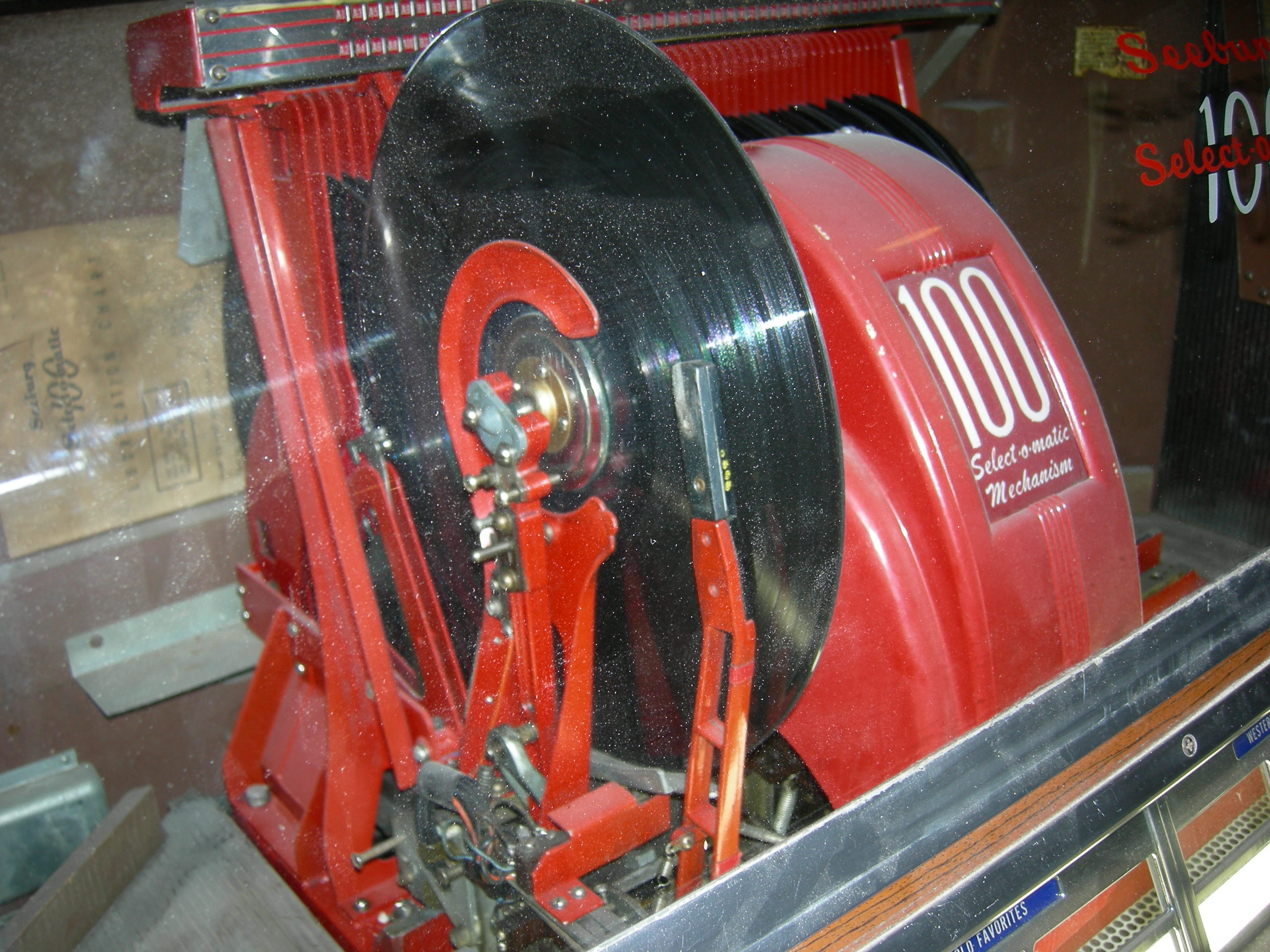 Detail, Seeburg Selecto-o-matic jukebox at "The Stables" behind Full Throttle Bottles, Georgetown, Seattle, Washington. This handles up to 100 LPs and presumably dates from the 1950s.